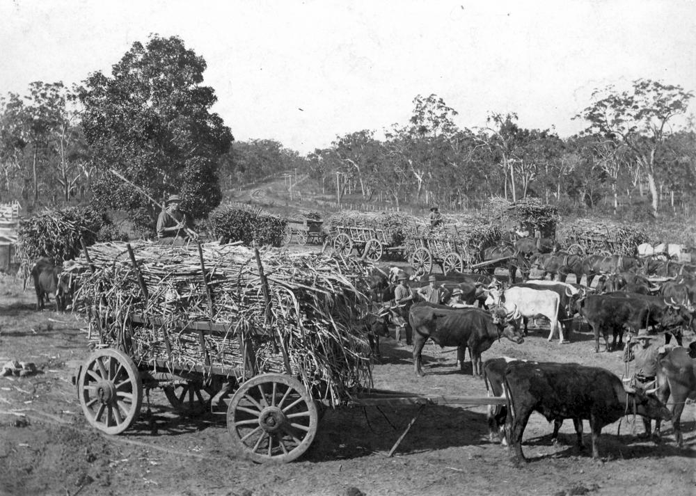 Sugar cane at Walligan Siding circa 1924